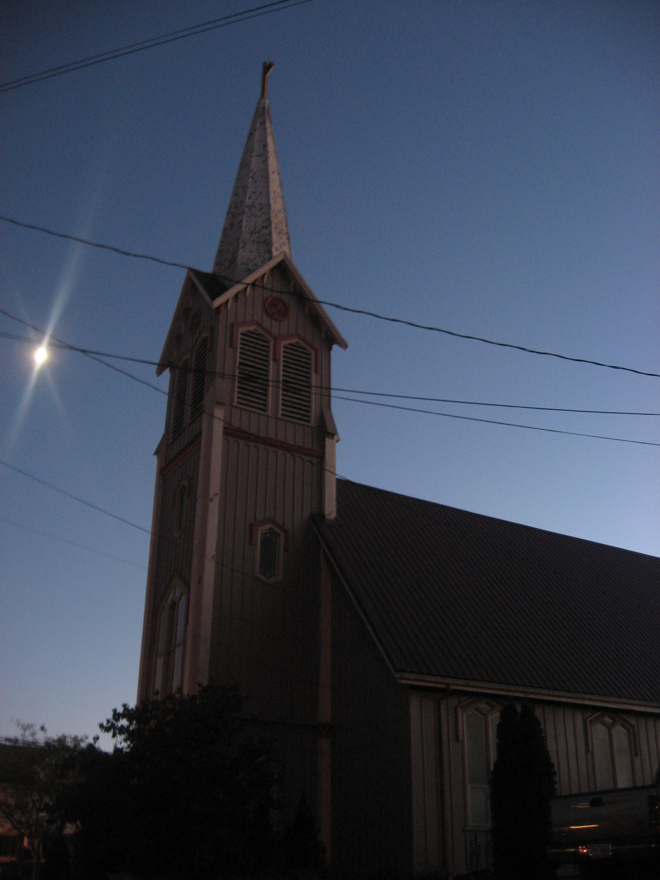 View from the north of Zion Episcopal Church, located at 7 Ridge Street (State Routes 99/547) in Monroeville, Ohio, United States. Built in 1861, it is listed on the National Register of Historic Places.